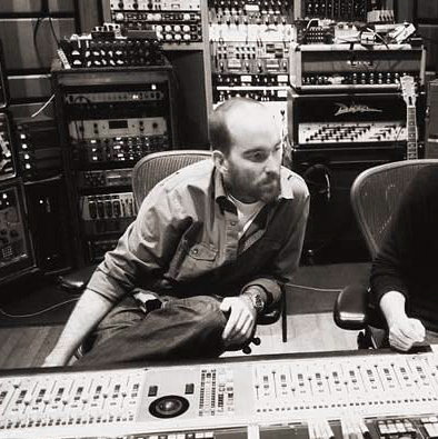 Billy Bush is a producer, engineer and mixer based in Los Angeles, CA. Bush is represent by GPS Management. This photo was issued with explicit permission from GPS.